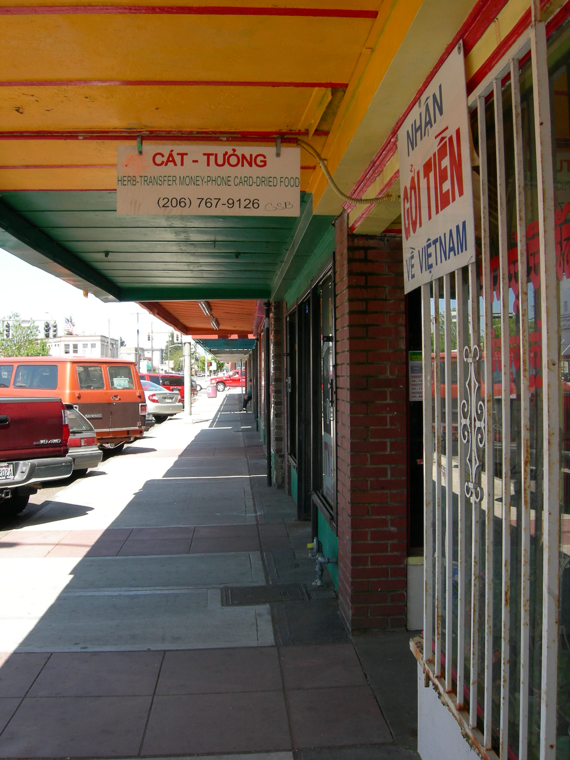 Shops with awnings covering sidewalk, White Center, Washington.